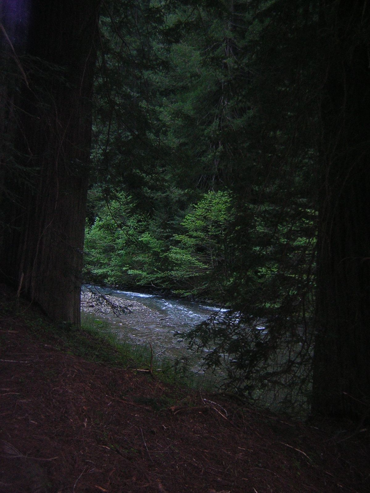 A view down the hillside from Rockefeller Grove to Bull Creek in Humboldt Redwoods State Park.